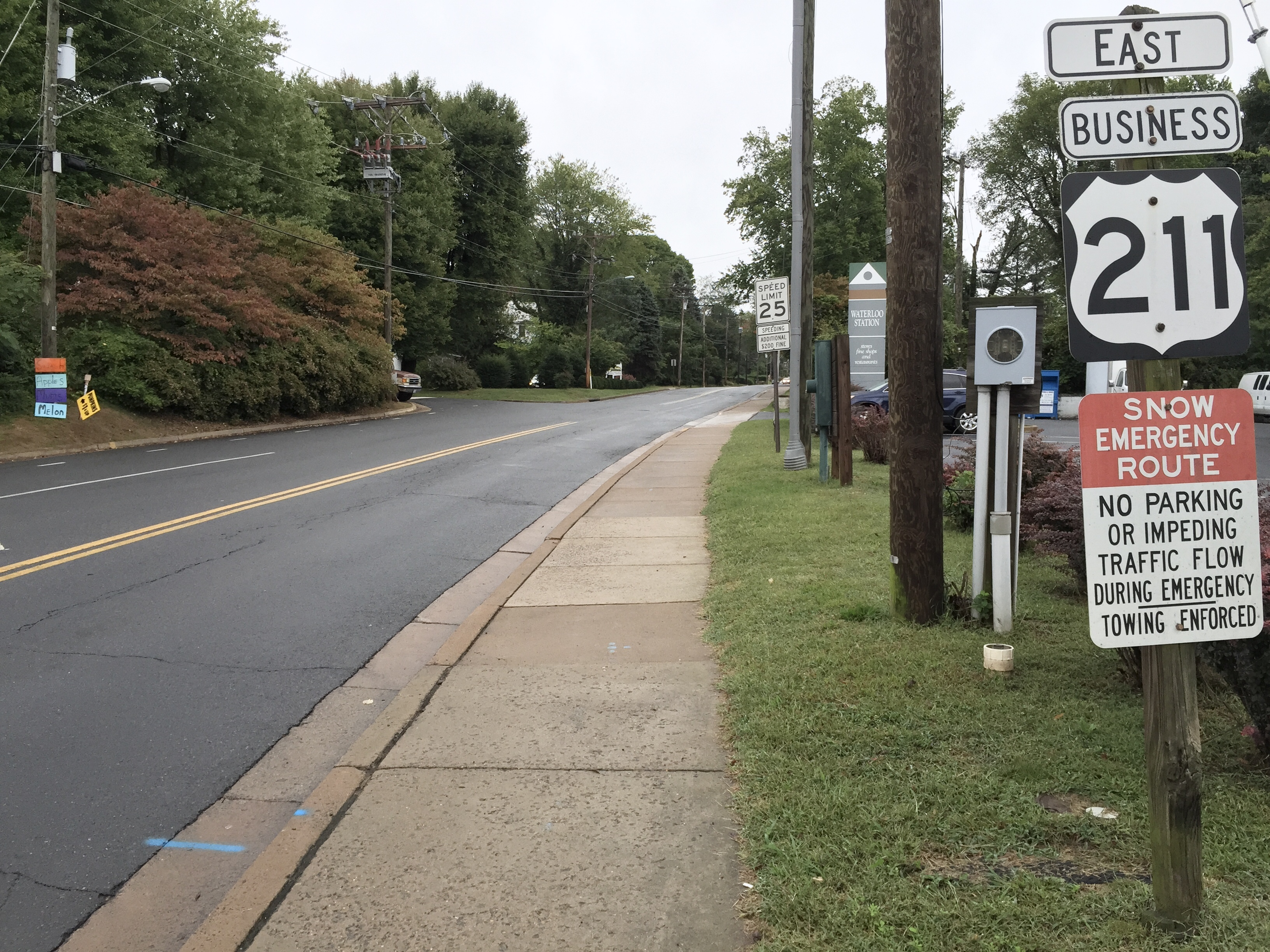 View east along U.S. Route 211 Business (Waterloo Street) at U.S. Route 211, U.S. Route 17 Business and U.S. Route 29 Business (Broadview Avenue) in Warrenton, Fauquier County, Virginia